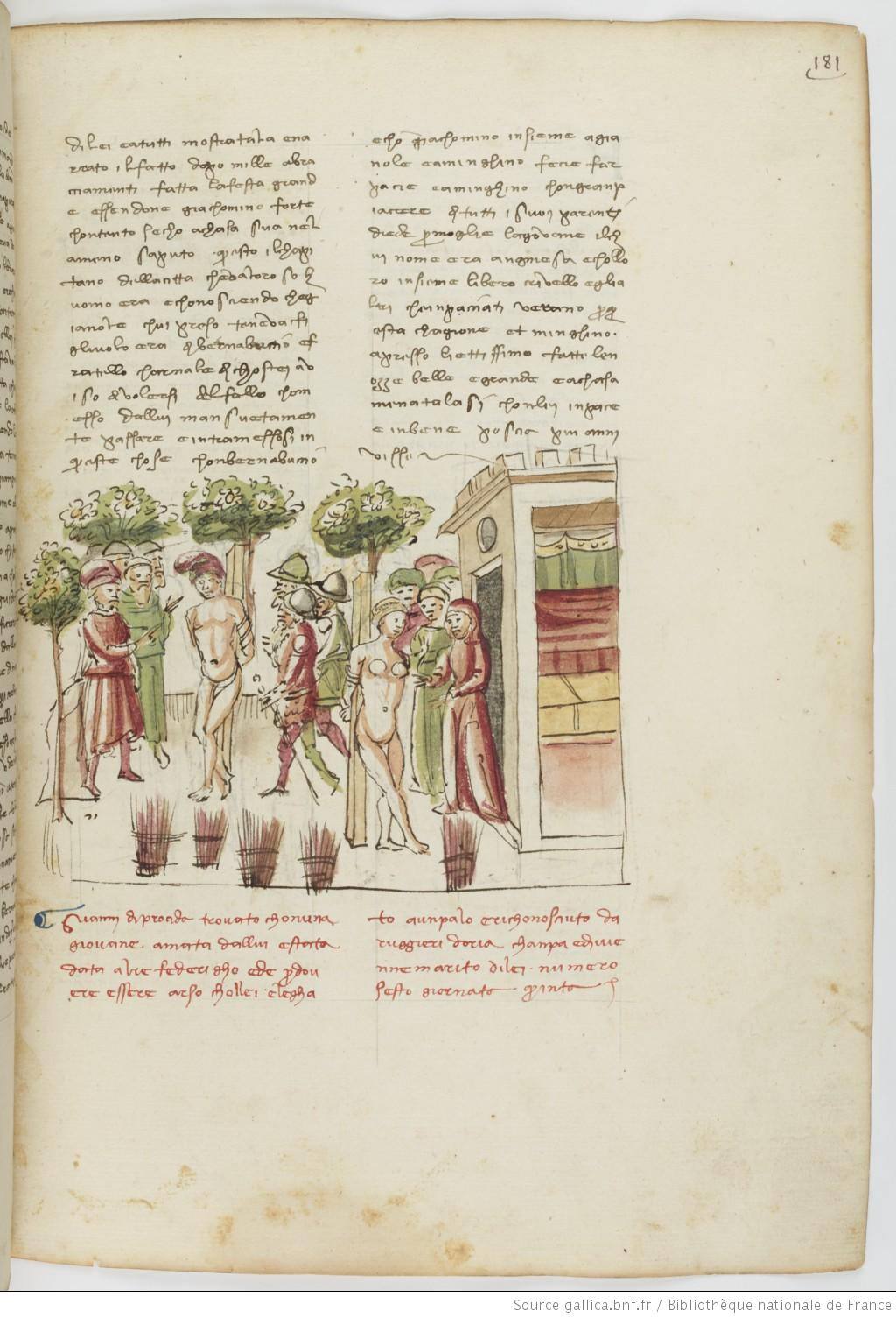 BNF MS Italien 63, fol. 181r: Boccaccio, Decameron: tale 5.6